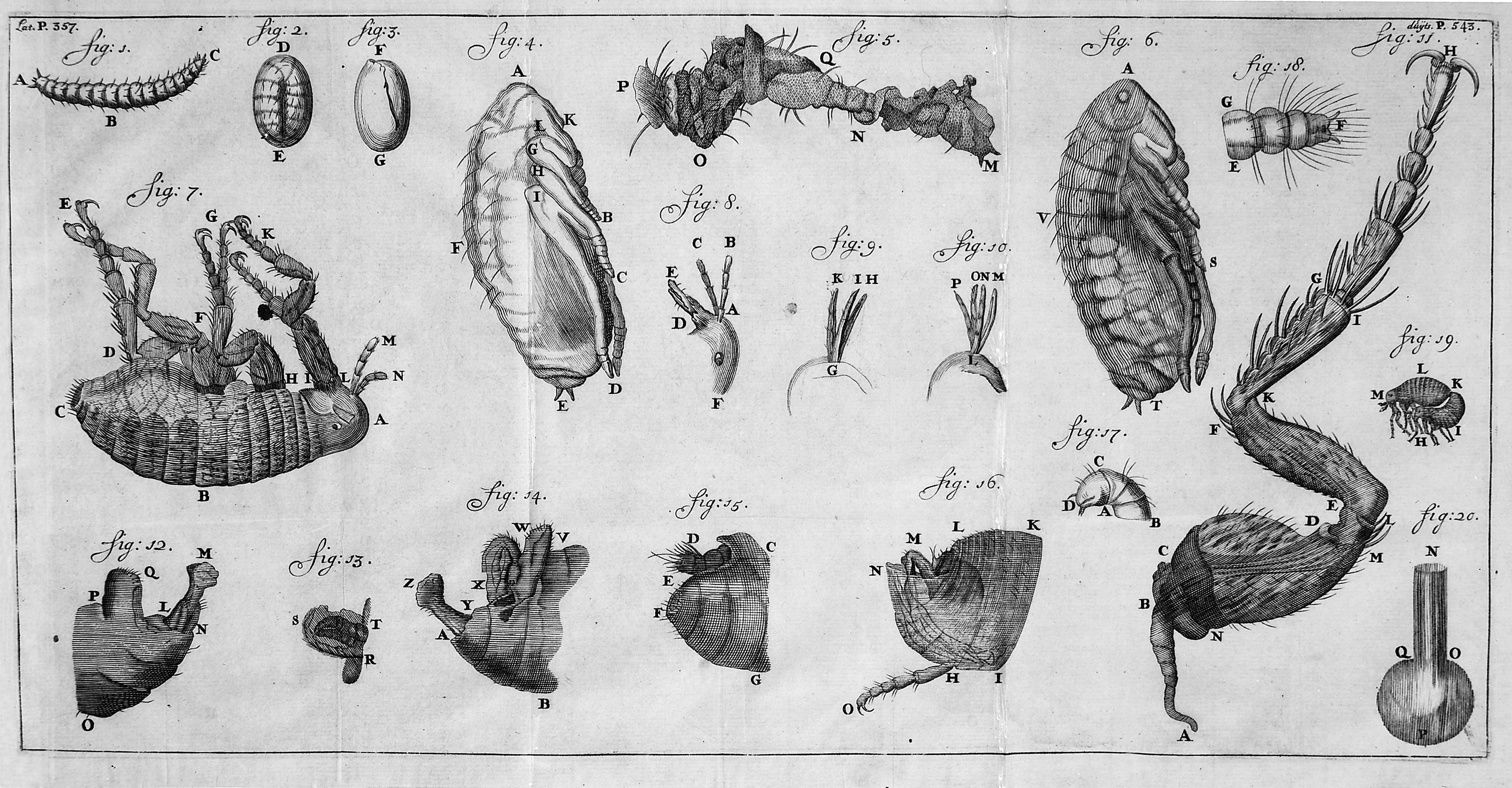 The development of the flea from egg to adult. Rare Books Keywords: Anthony van Leeuwenhoek; Embryology; Microscopy